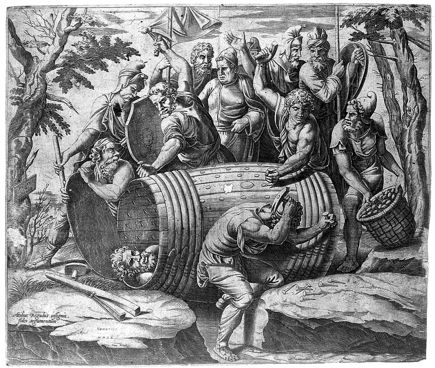 Reg Wellcome Images Keywords: Marcus Atilius Regulus; Giulio Romano